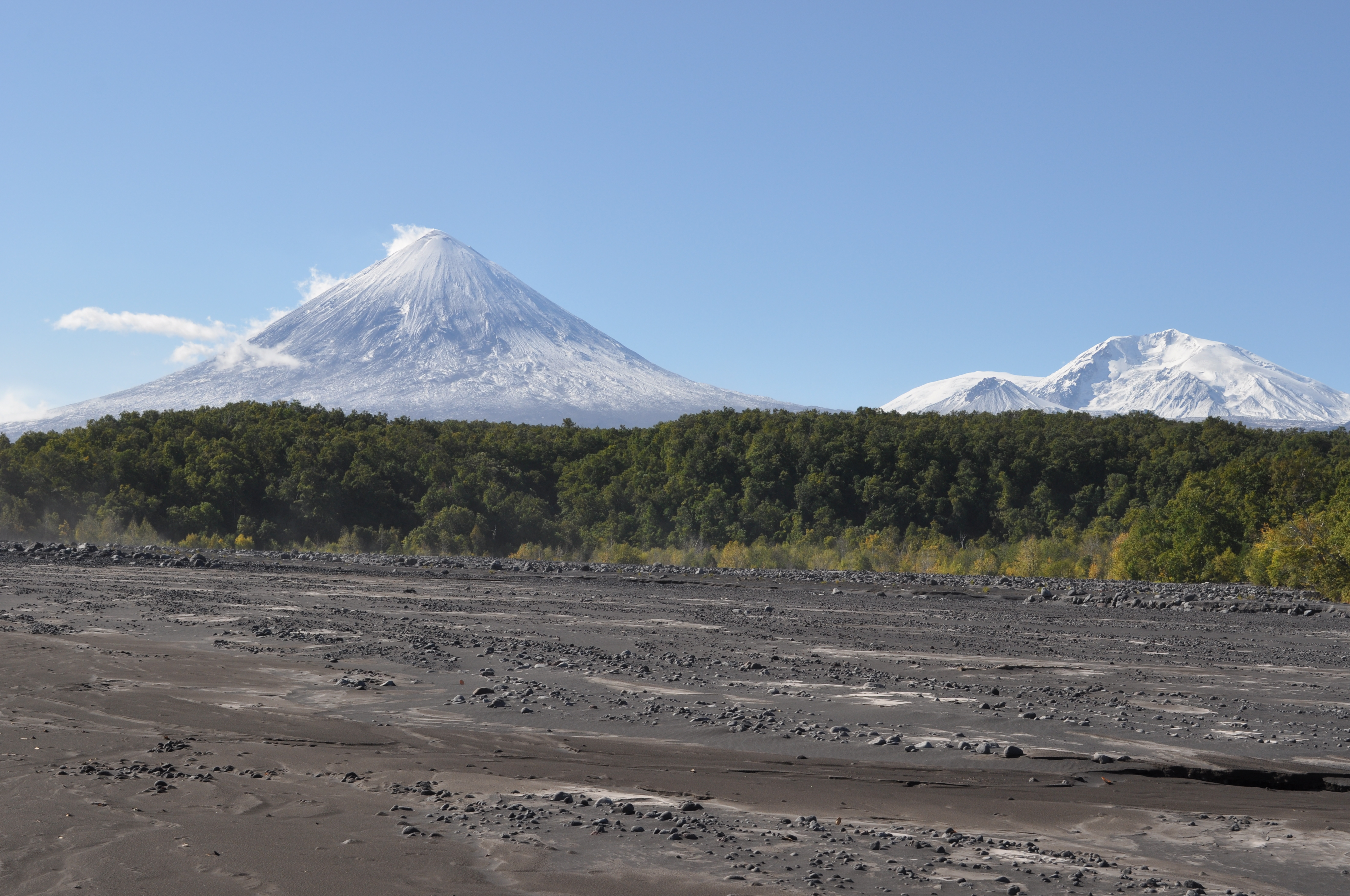 Klyuchevskoi Volcano.One of the highest volcano on Kamchatka.